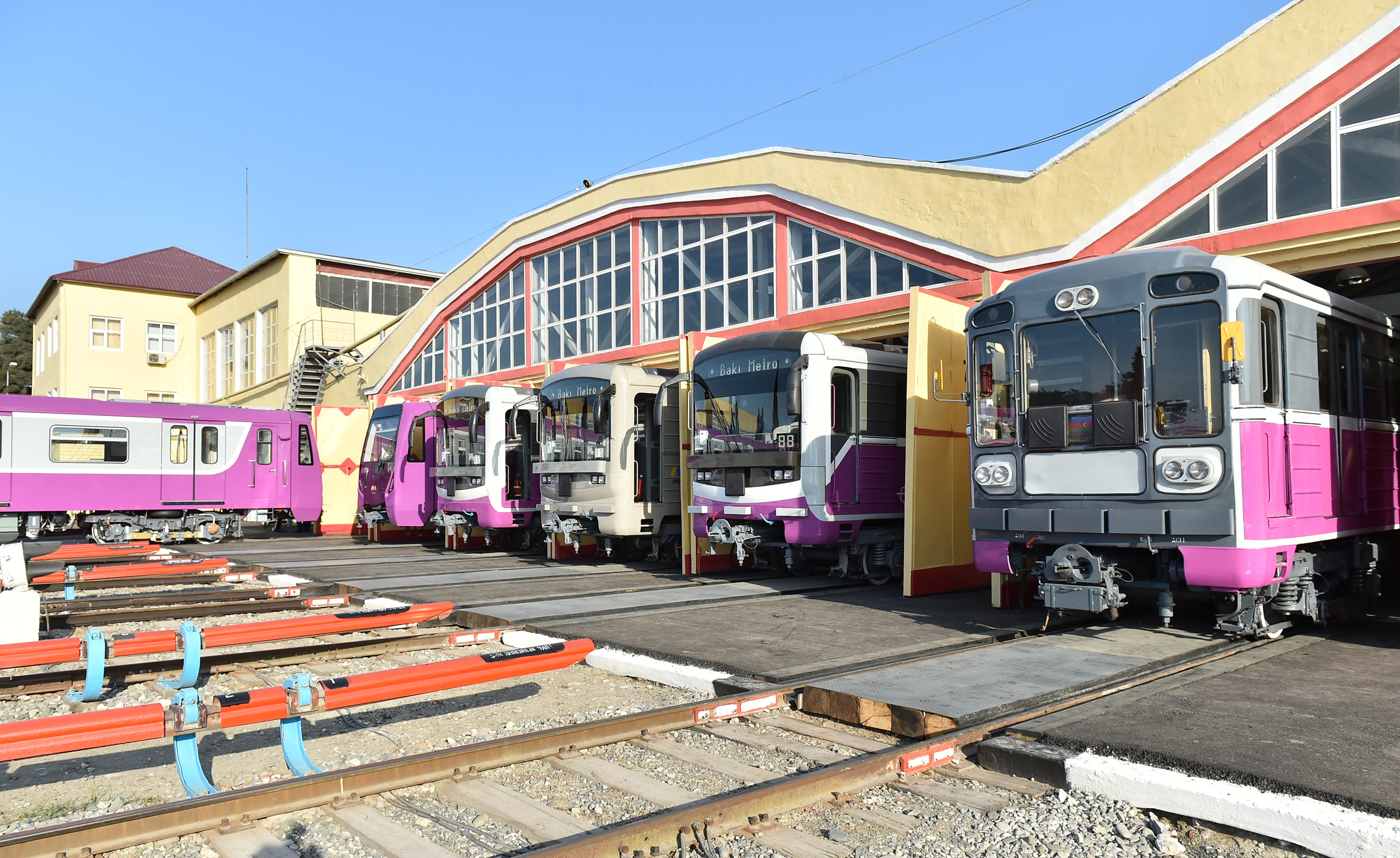 Subway trains 81-717/714, 81-717m/714m and 81-760B/761B/763B. Nariman Narimanov's depot, Baku Metro